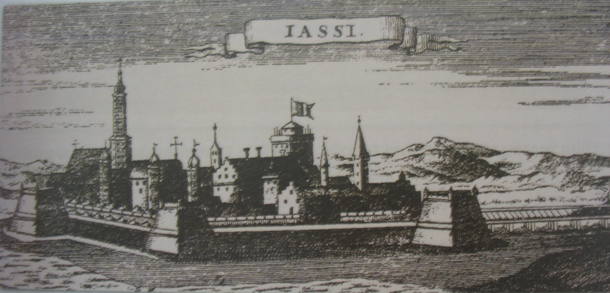 The city of Iași (Iassy), capital of Moldavia, in 1701 (German engraving)